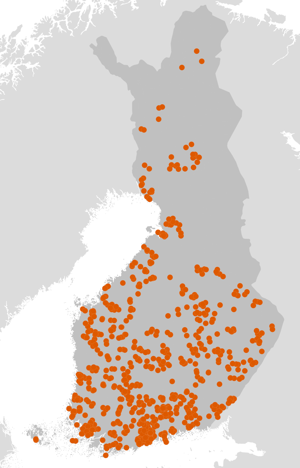 District heating plants in Finland